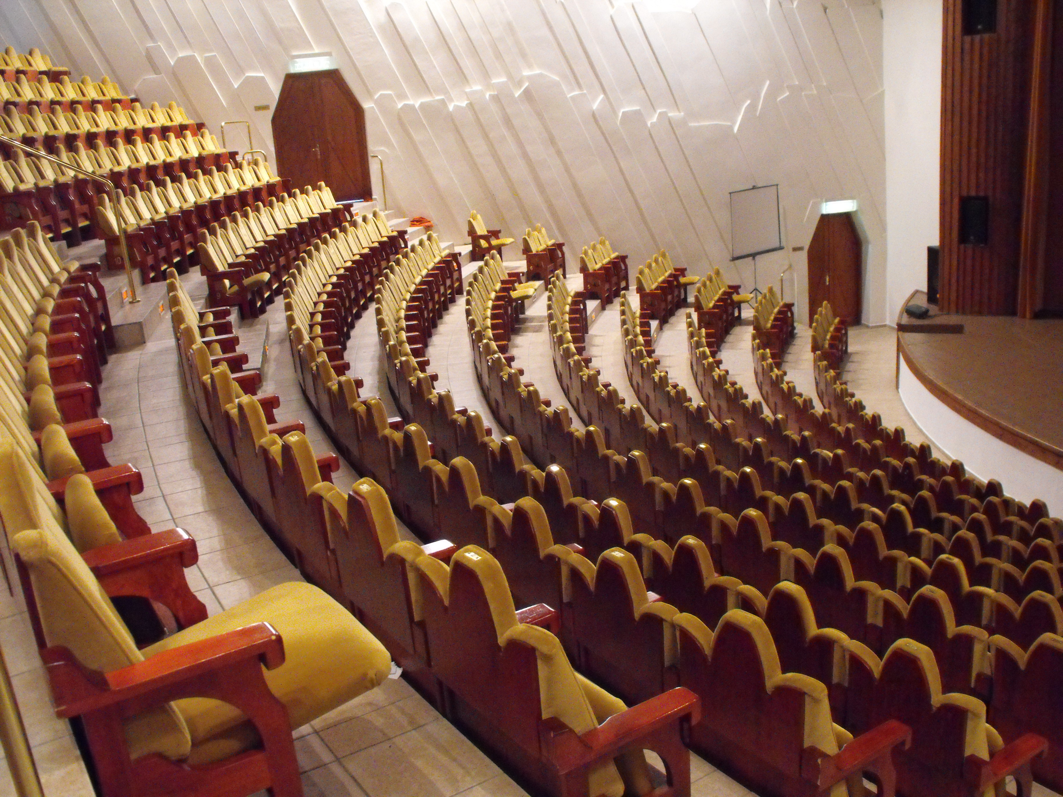 The auditorium of the Hagymaház, theatre of Makó, Hungary.